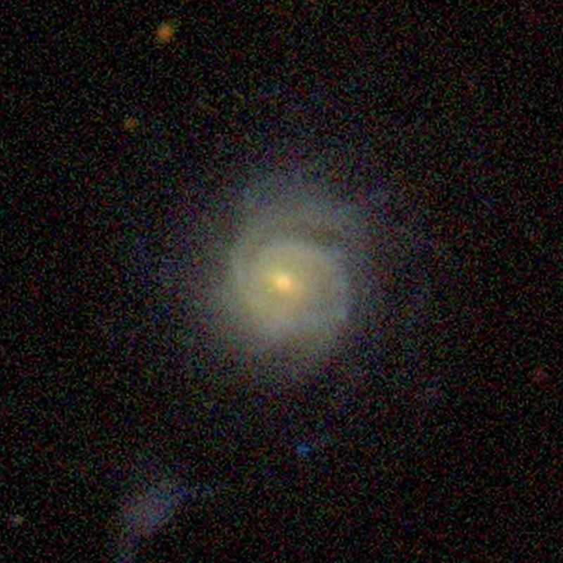 The galaxy I Zwicky 32 is greatly unknown to astronomers. It is a pretty cool looking galaxy. (SDSS Image)